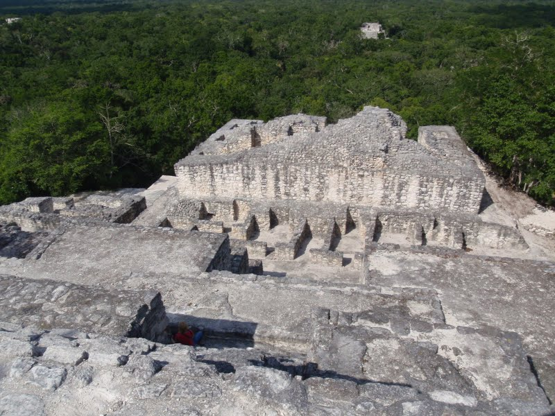 Top terrace of Calakmul Structure 2, shot from the top of the pyramid, Calakmul, Mexico